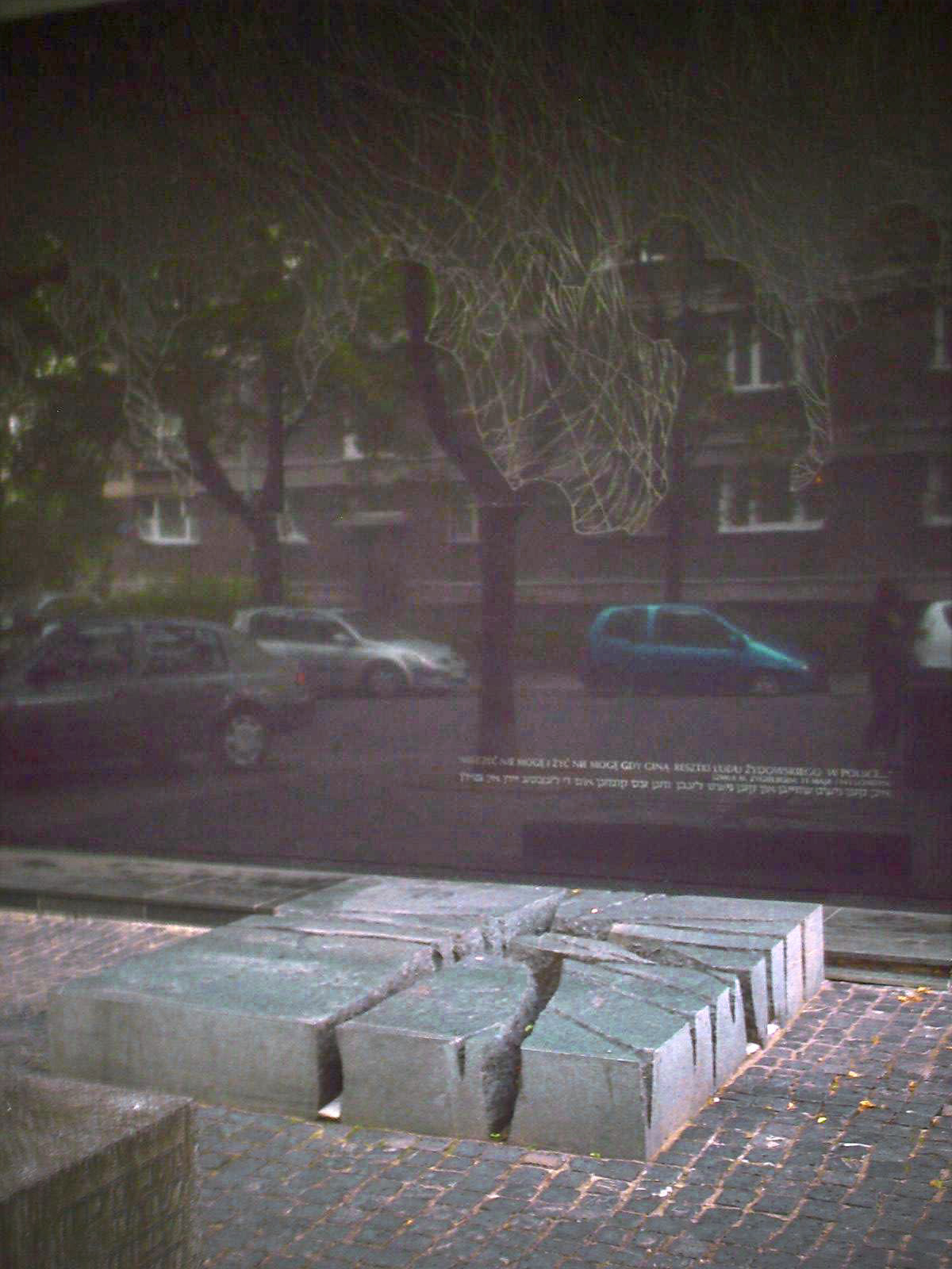 A monument conmemorating Szmul Zygelbojm's death. Warsaw, Poland.